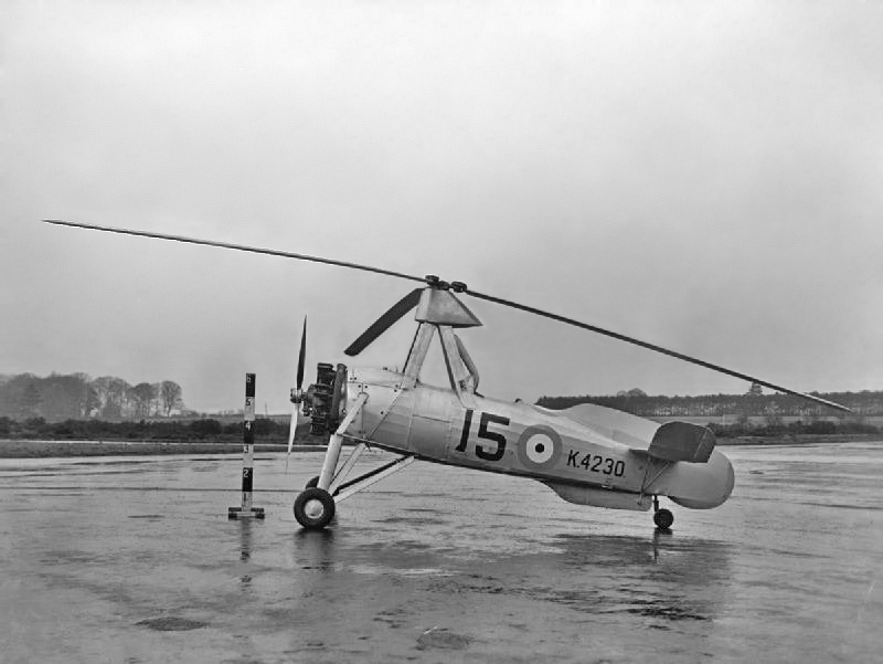 Cierva C.30A Rota I (K4230), Martlesham Heath, c. 1936